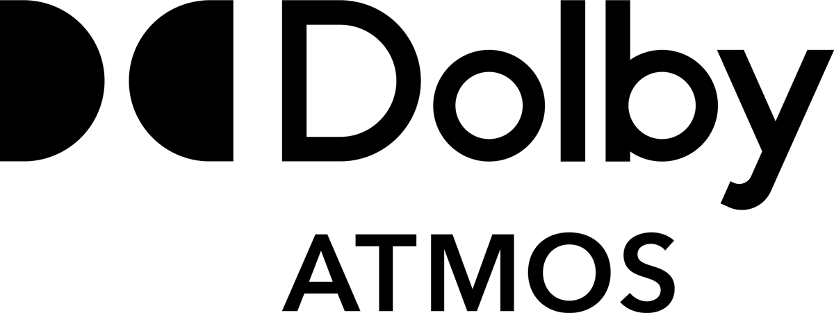 Dolby Atmos Logo circa 2019